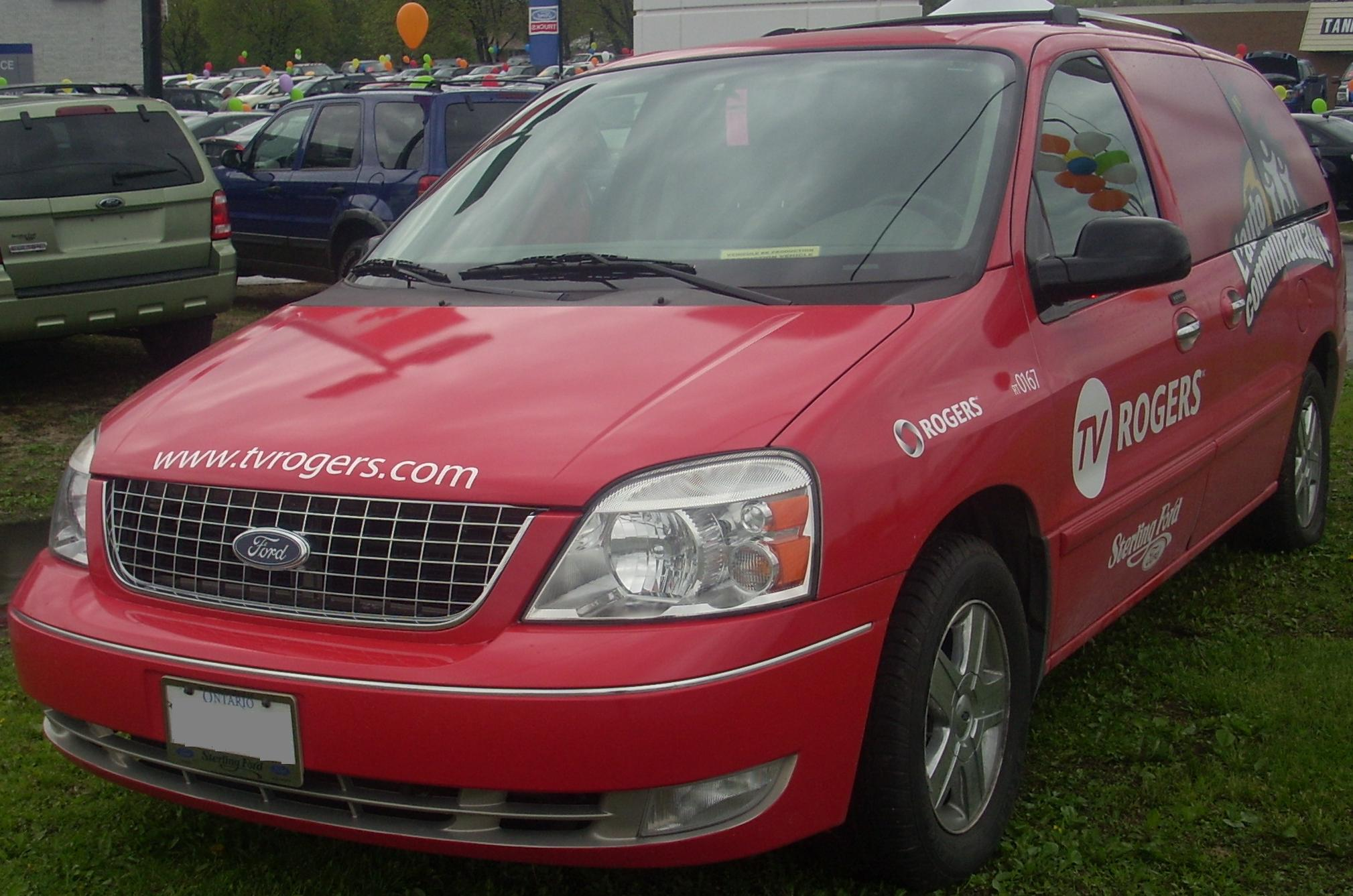 Ford Freestar photographed at the 2009 Sterling Ford Ottawa Auto Show.